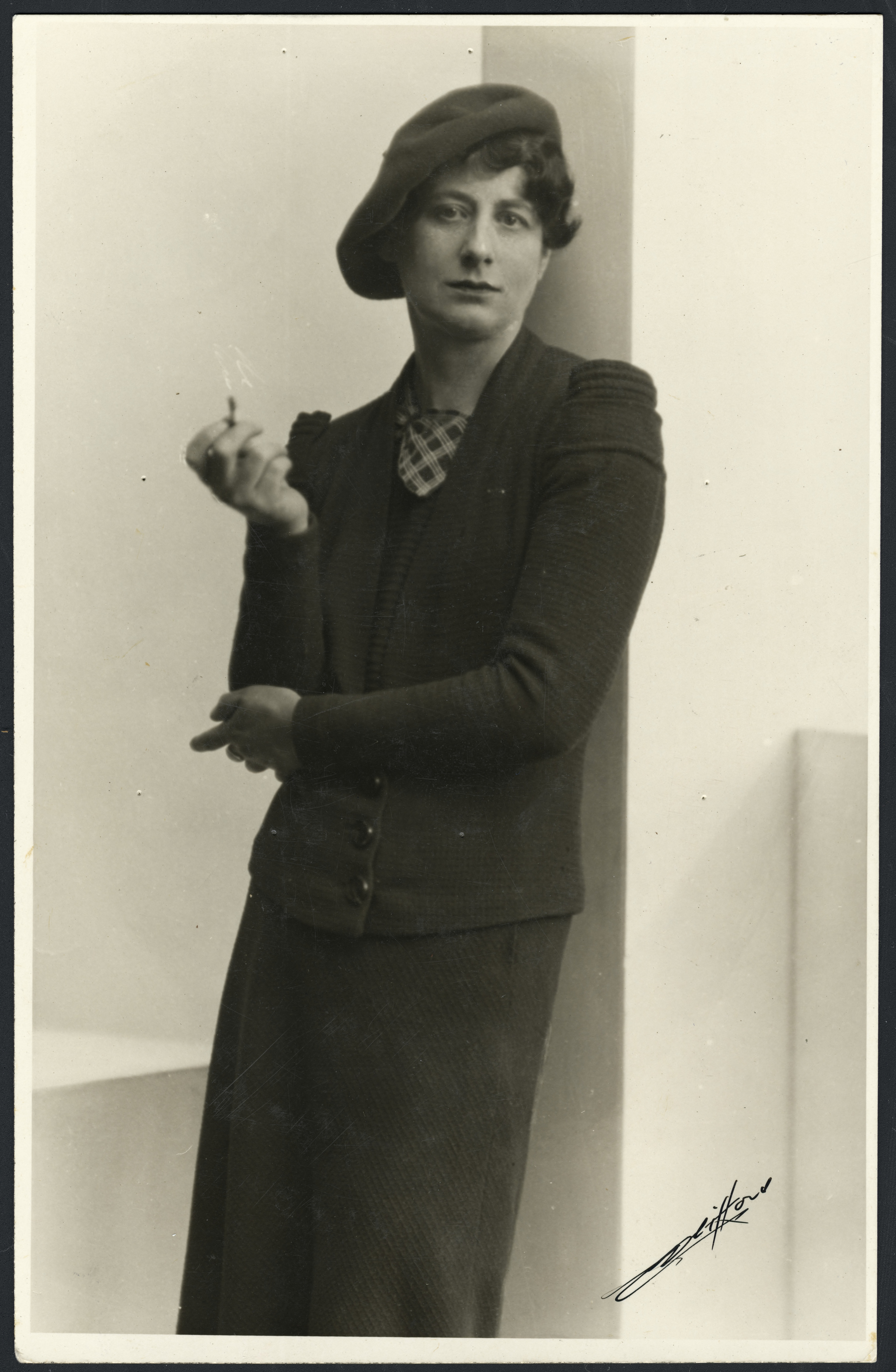 Standing portrait of Ngaio Marsh taken circa 1935 by Henry Herbert Clifford.